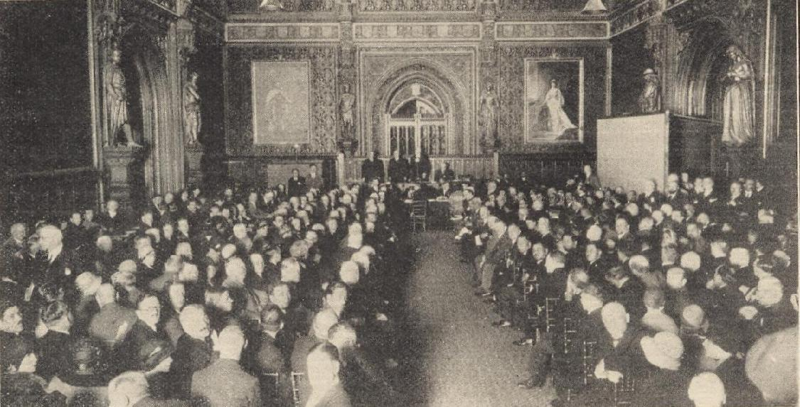 Conference of World Parliaments in London, England Four thousands of parliament deputies under presidency of George Sutherland-Leveson-Gower "Try to cure matters of the World"